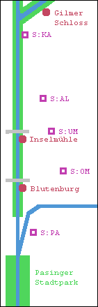 Würm Situation in Munich, Bavaria